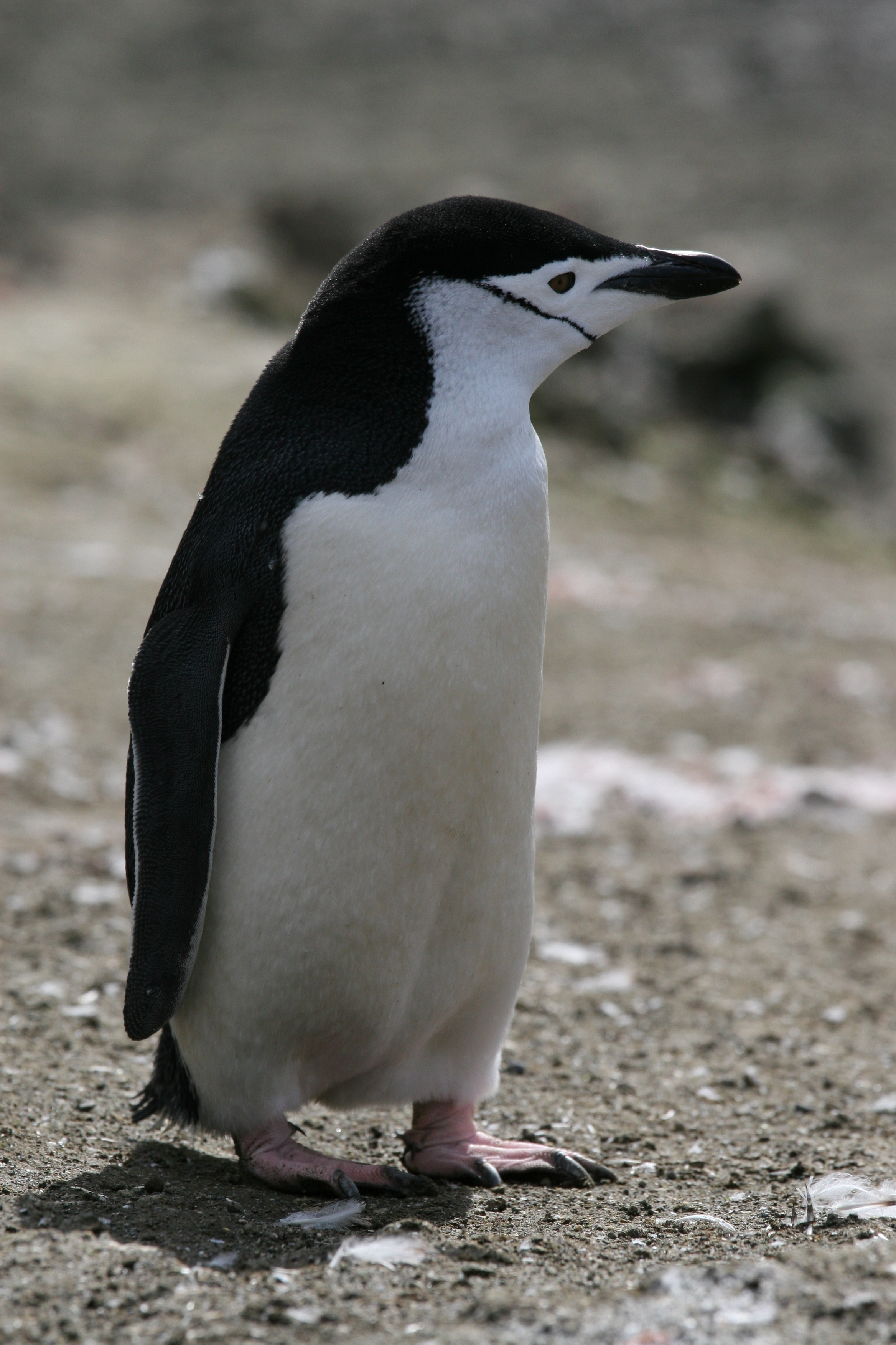 Chinstrap Penguin (Pygoscelis antarctica) on Livingston Island, South Shetland Islands, Western Antarctica.